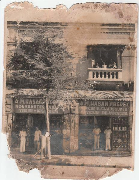 shop